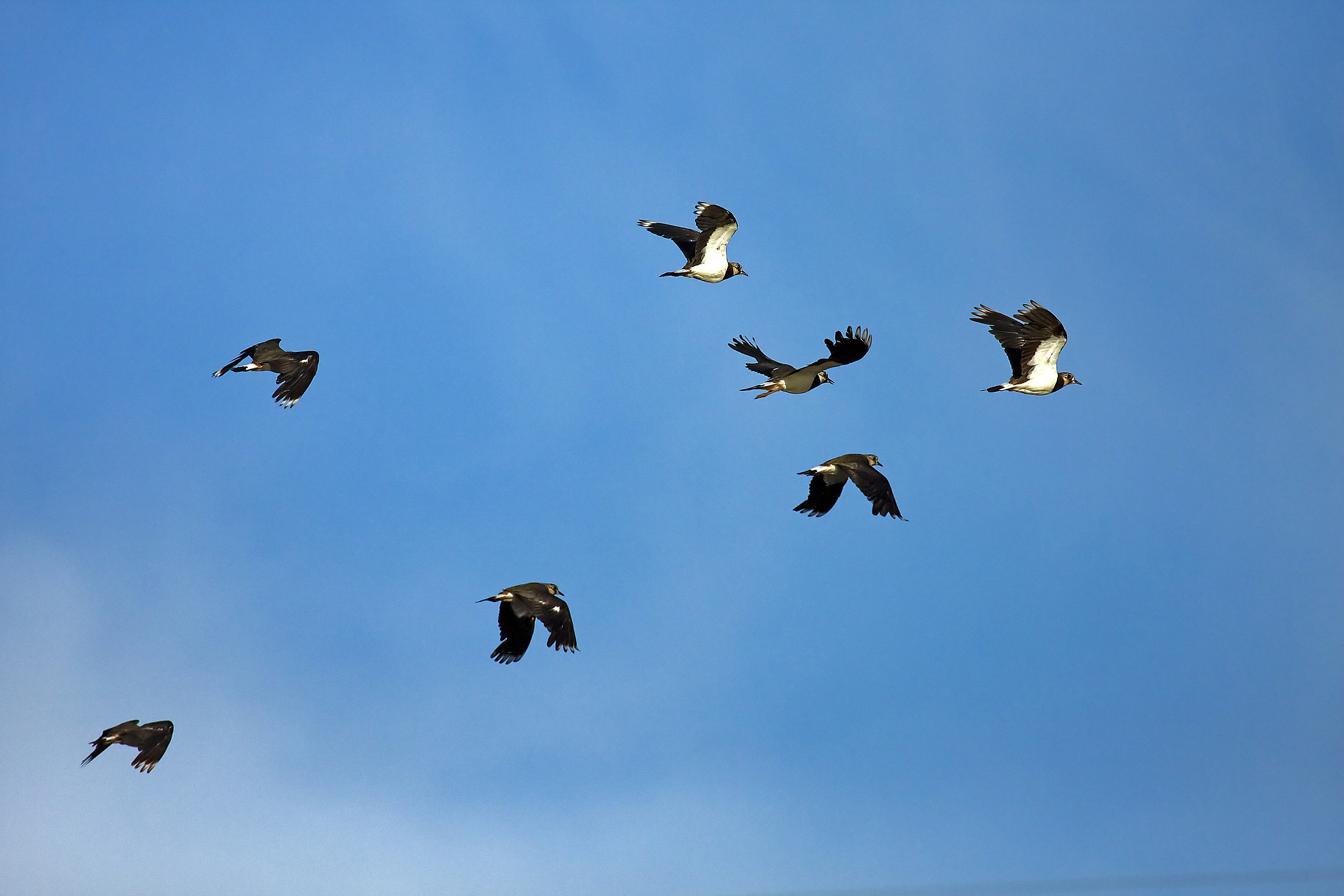 Northern_Lapwing